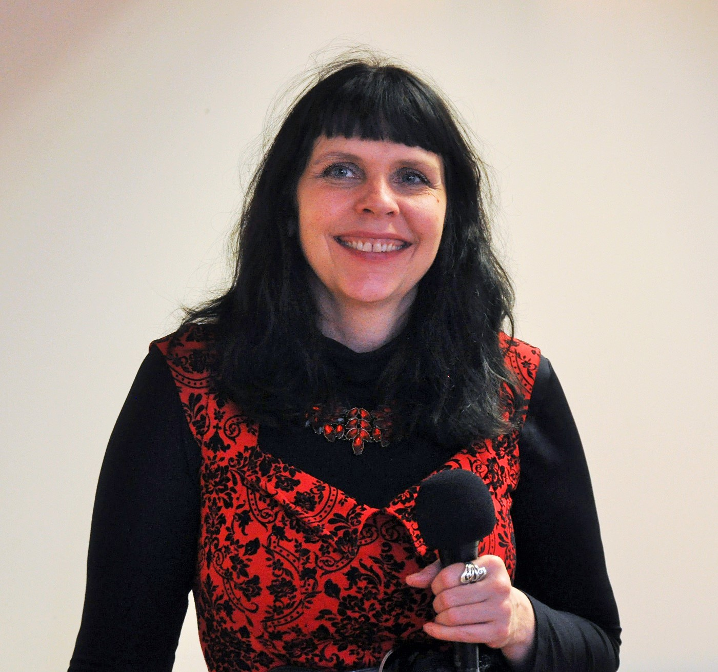 Birgitta Jónsdóttir - addressing the Czech Pirate Party